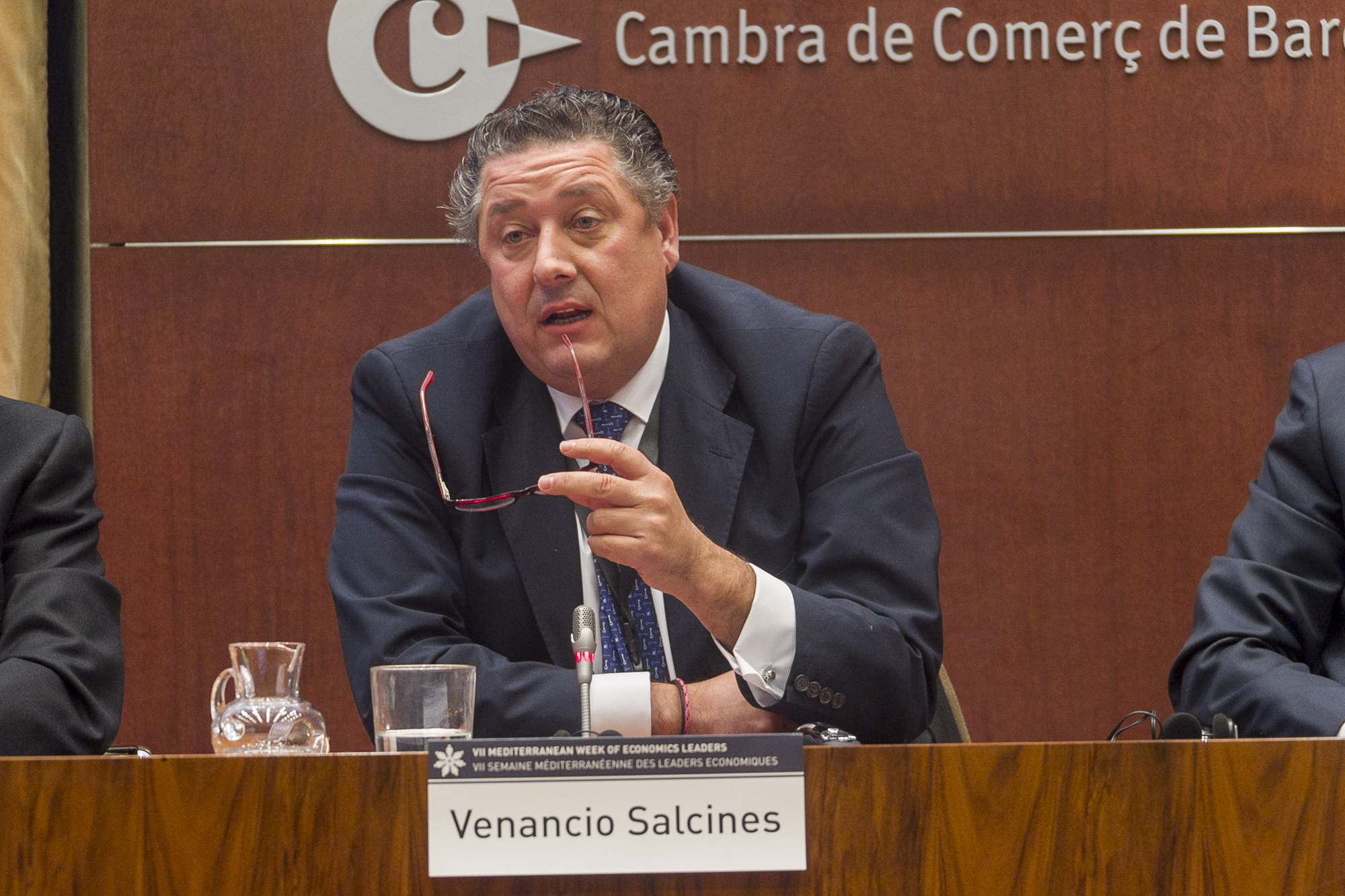 Venancio Salcines lectures on Islamic Finance at the 7th Mediterranean Week of Economic Leaders in 2013.